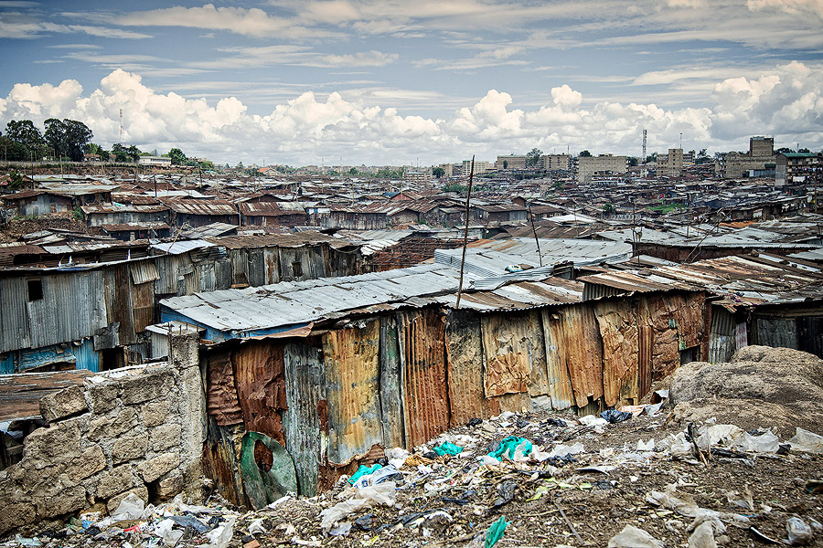 A view of the Mathare Valley slum (photo by Claudio Allia).